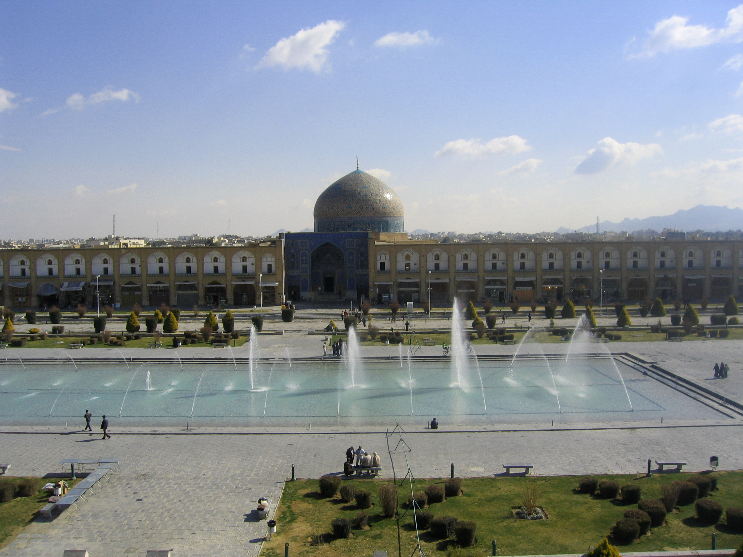 Gardens at Naqsh-i Jahan Square, and Sheikh Lotf Allah Mosque — Isfahan, Iran.